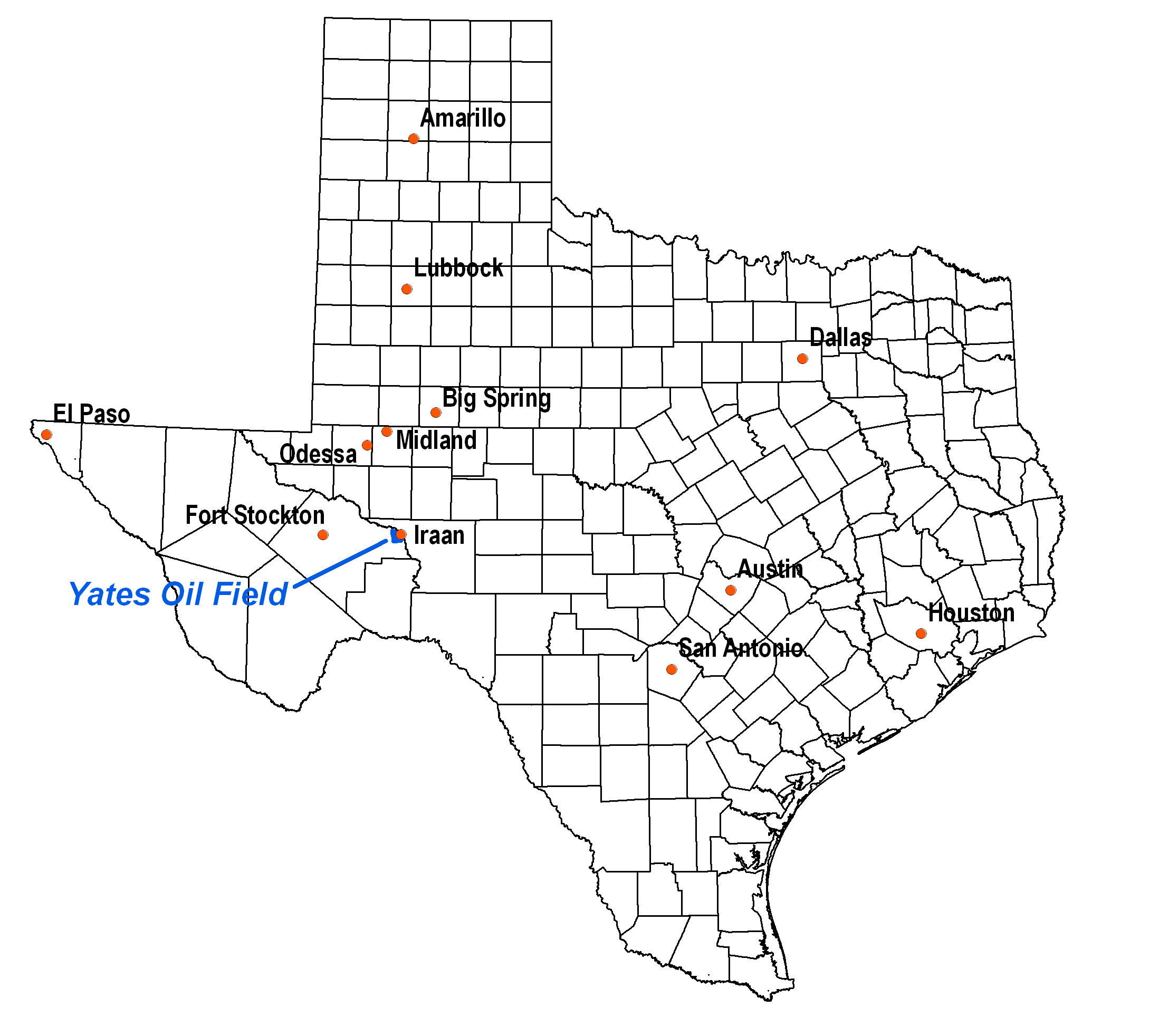 Location of Yates Oil Field in Texas. Map by self; all information on this map is in the public domain; made in ArcGIS 9.3.